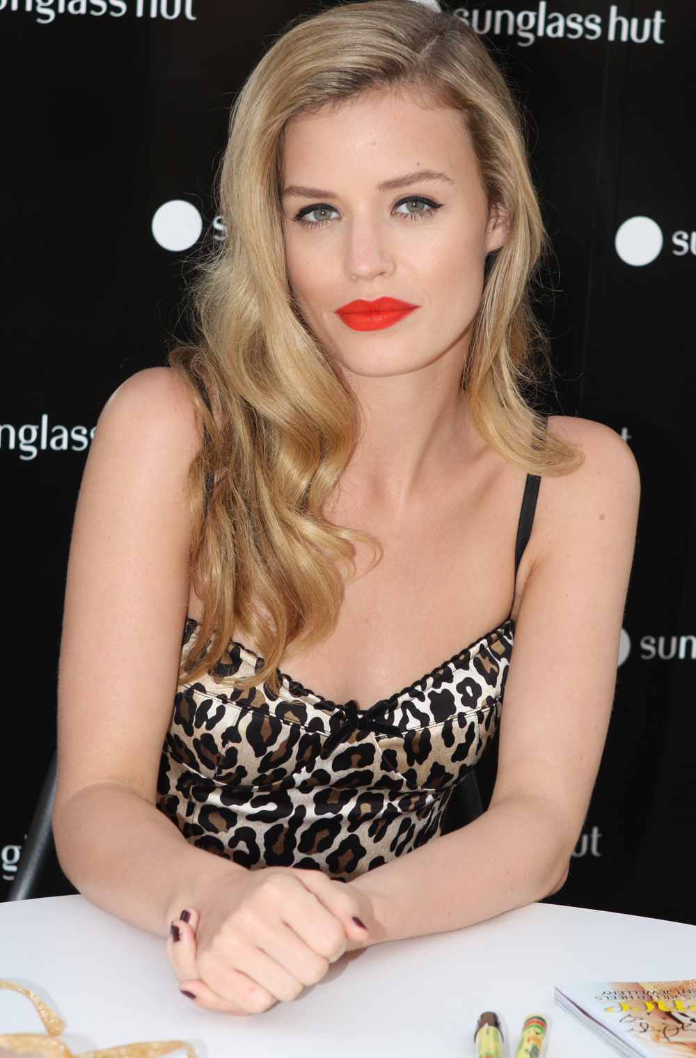 Georgia May Jagger in Sydney, Australia; Sunglass Hut floats on Sydney Harbour with celebrities and product pitch; 2nd day of on water Sydney promotion...